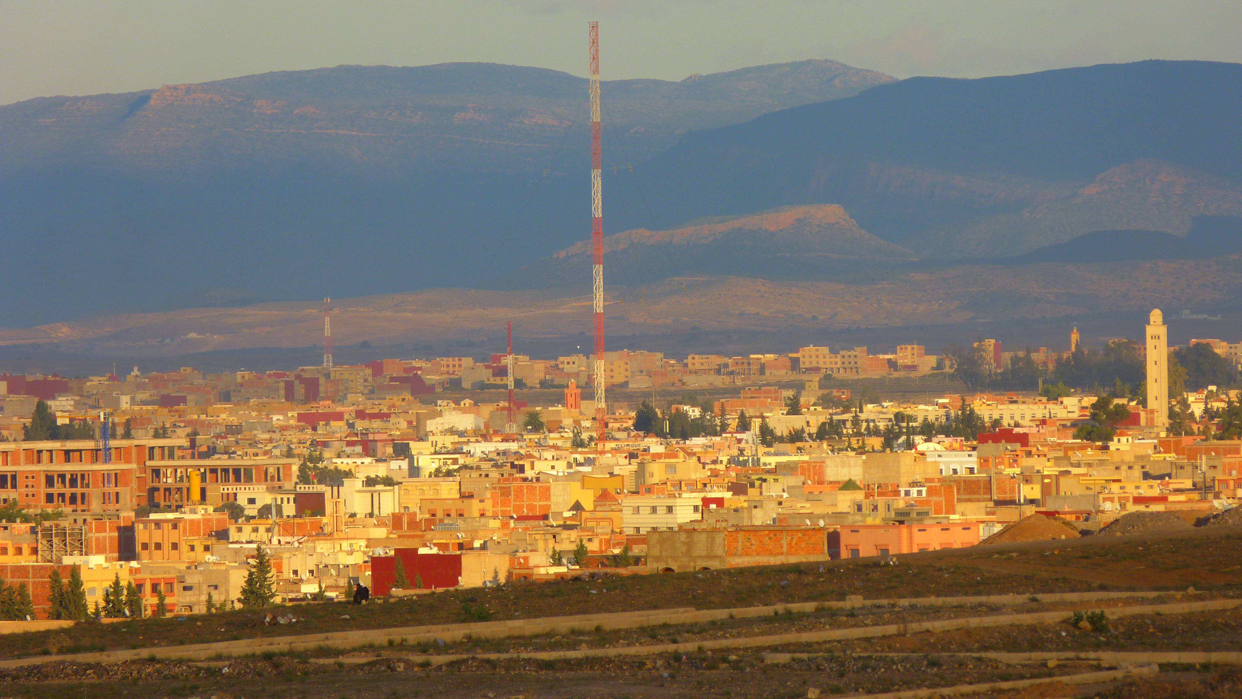 View of Oujda city in Morocco Oriental region from the road N6.